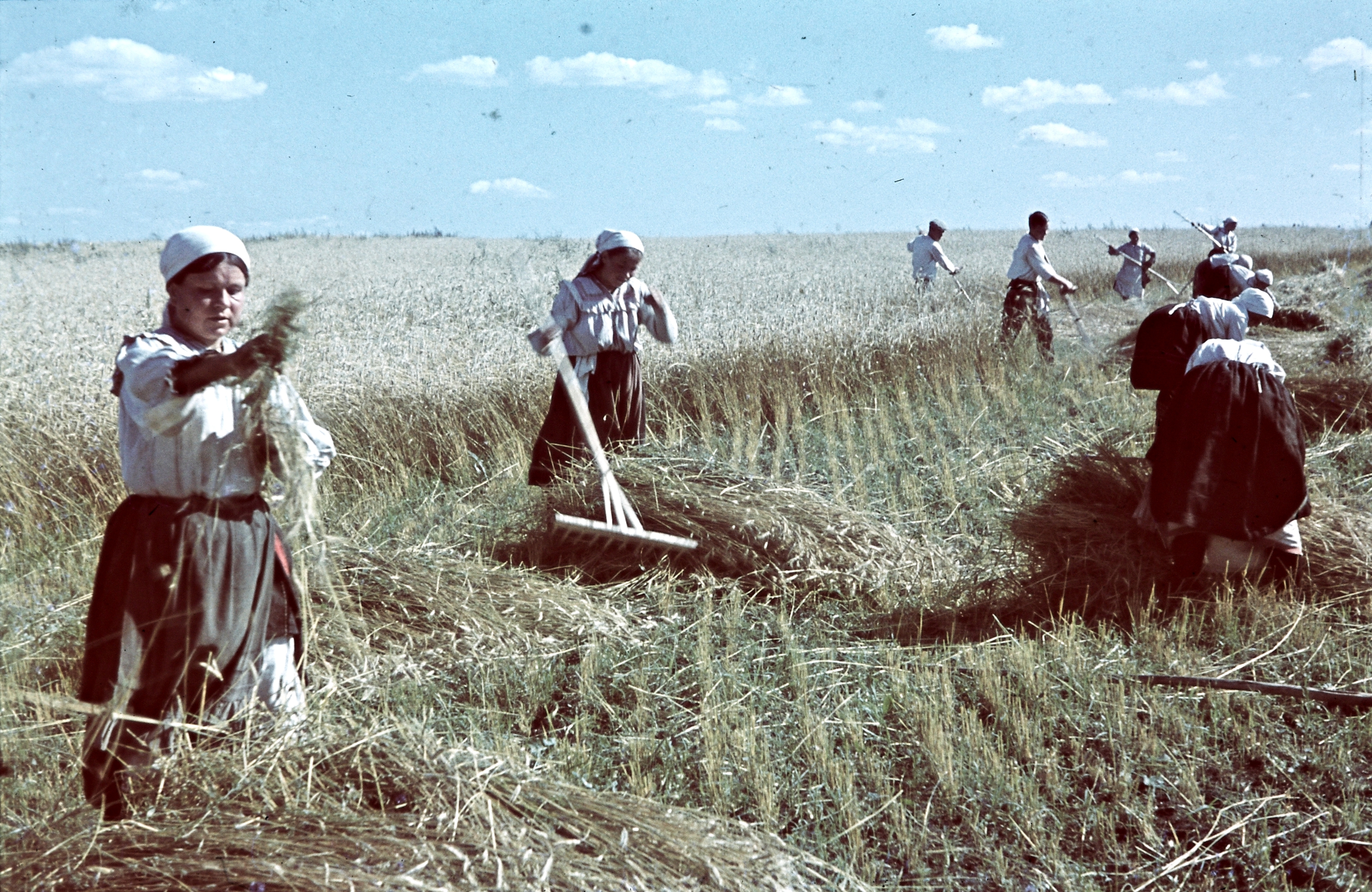 Location: Russia Tags: colorful, agriculture, rake, harvest, folk costume, headscarf